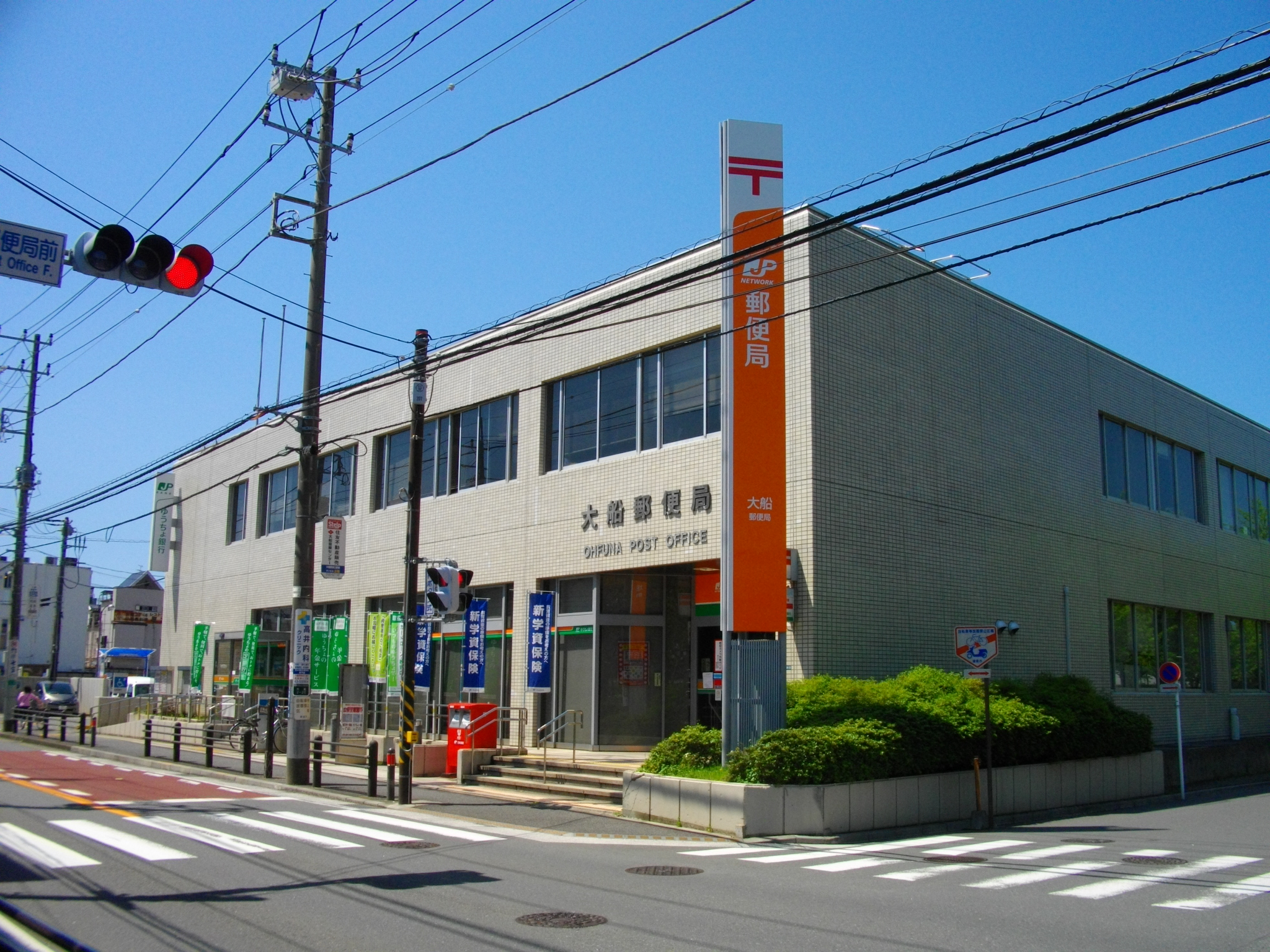 Ofuna Post Office